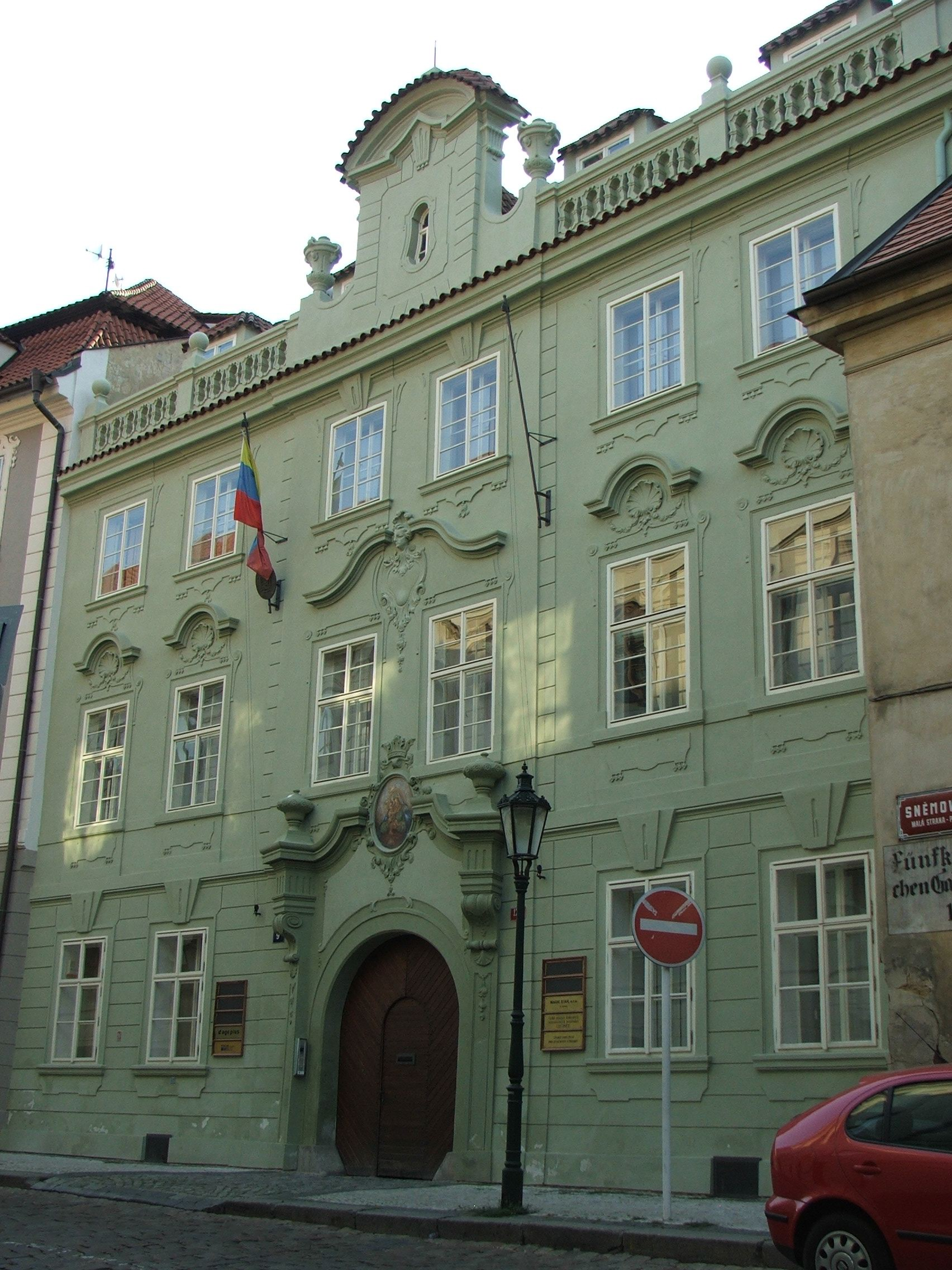 House in Sněmovní 9 - which host as well Embassy of Venezuela in Prague - Malá Strana, Czechia.